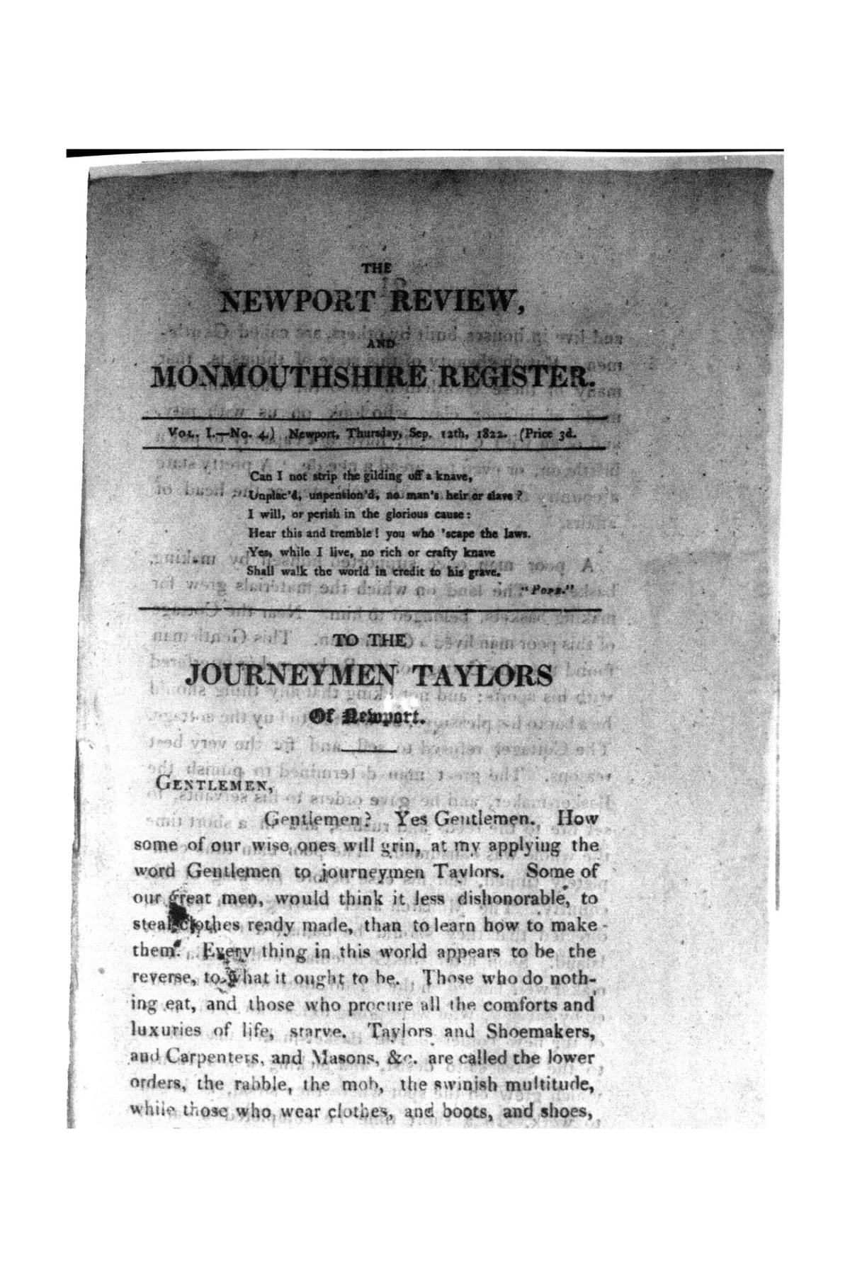 An irregular politically radical periodical circulating in Monmouthshire. The periodical's main content was political articles and included early contributions from the future Chartist leader John Frost (1784-1877), who was to play a prominent role in the Chartist uprising in Newport in 1839. The periodical was edited by the radical printer, Samuel Etheridge.